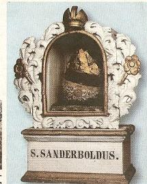 Skull of King Zwentibold